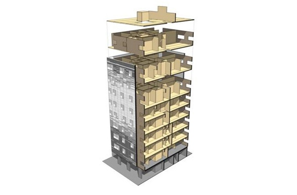 Cross-Section displaying Timber Structure